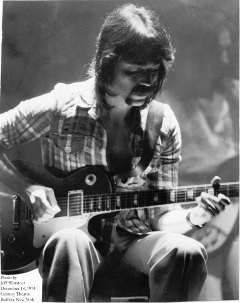 Guitarist Steve Hackett performs in concert with the band Genesis during their tour in support of the album The Lamb Lies Down On Broadway, 18 Dec 1974 at the Century Theatre in Buffalo, New York